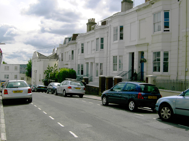 West Hill Road, Brighton Taken from the north side of the road looking east.